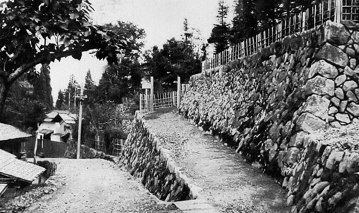 Ikaho Imperial Villa in Taisho era